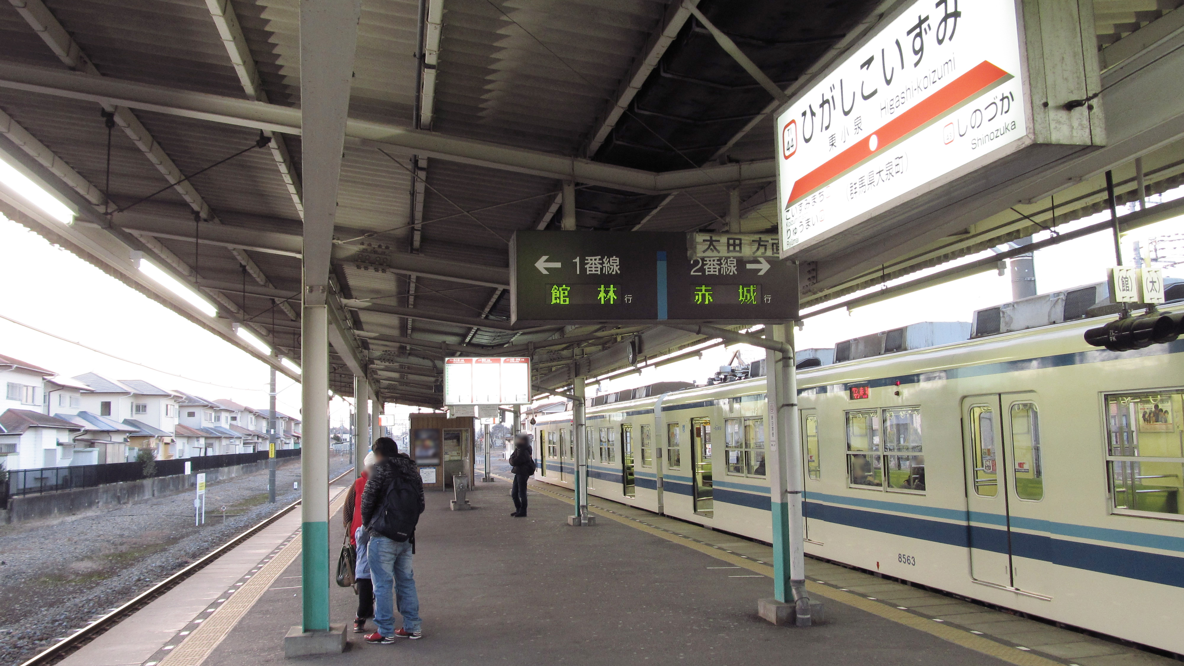 The platform at Higashi-Koizumi Station on the Tobu Railway Koizumi Line in Ōizumi town, Gumma prefecture, Japan